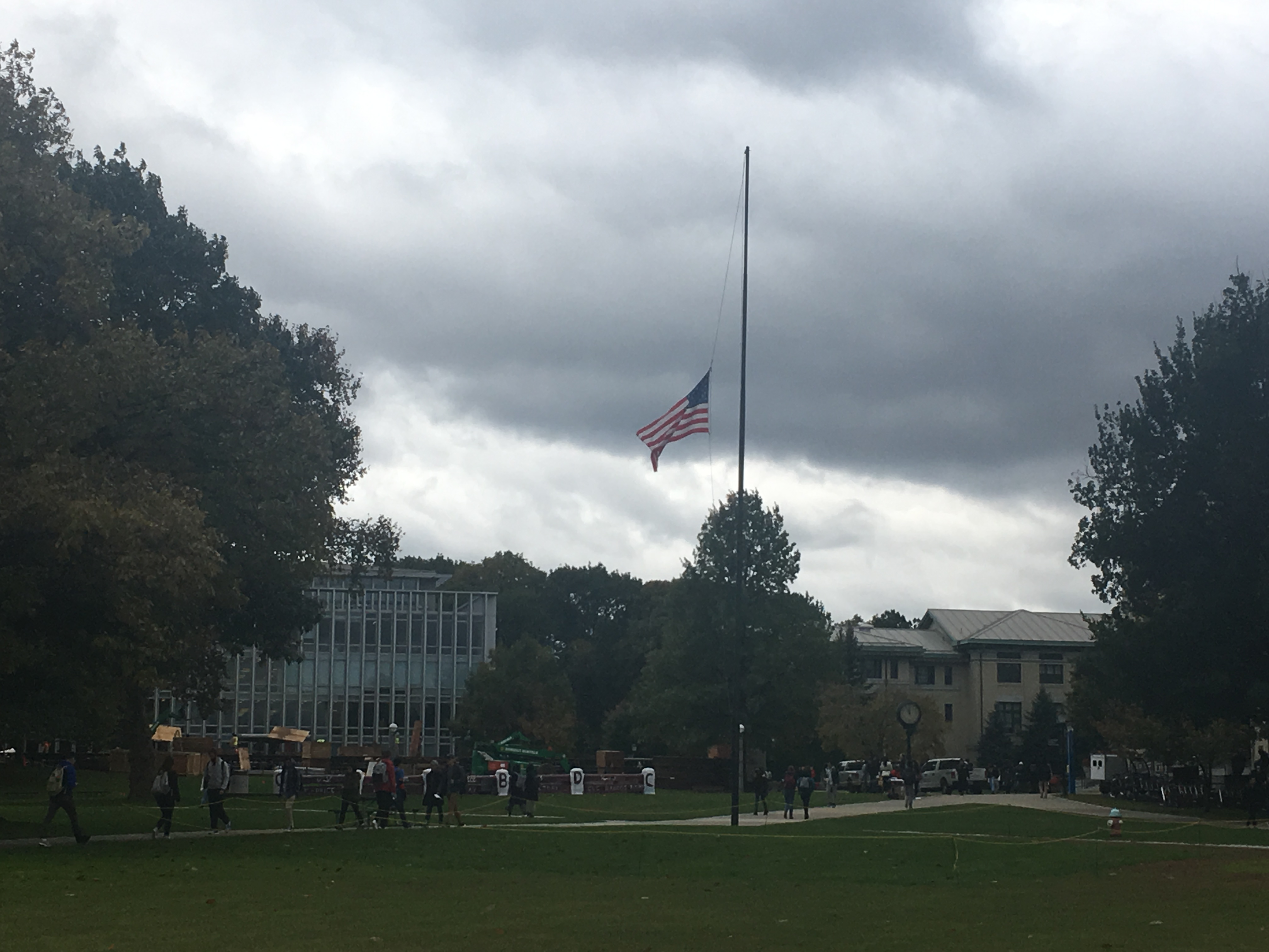 Carnegie Mellon University lowered its flag on 10/29/2018 due to the active shooting targeting on Jewish